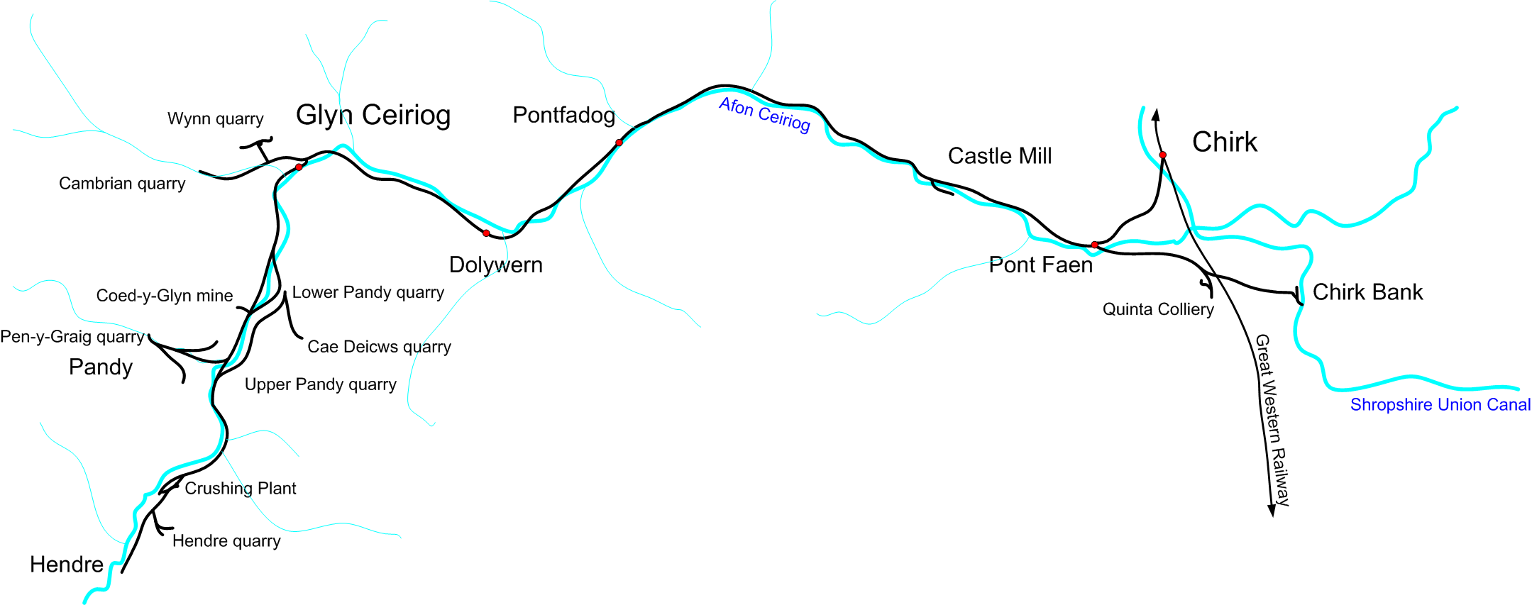 Map of the Glyn Valley tramway Author: Dan Crow Date: November 6, 2006